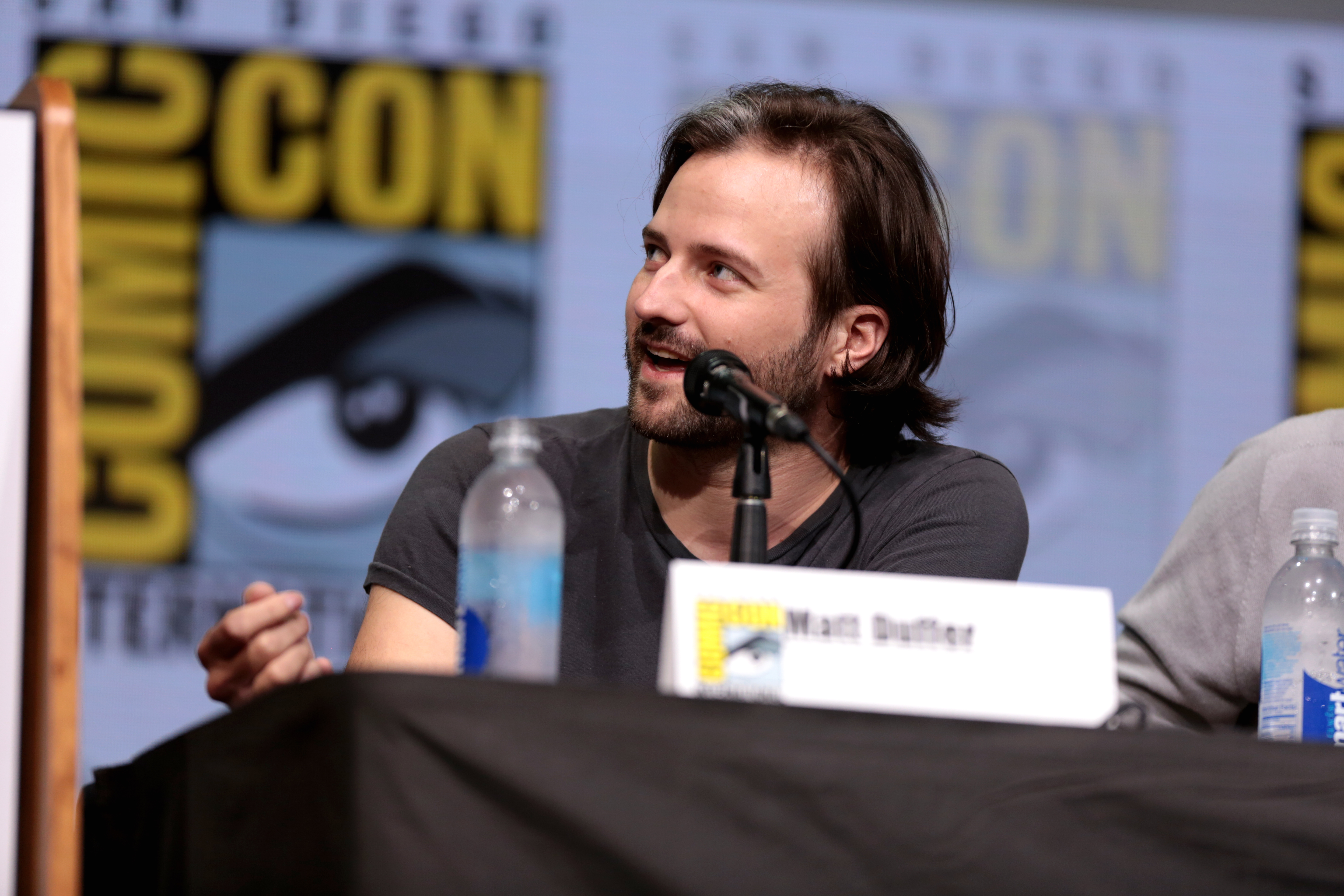 Matt Duffer speaking at the 2017 San Diego Comic Con International, for "Stranger Things", at the San Diego Convention Center in San Diego, California.